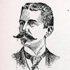 Edward de Veaux Morrell, US Representative from Pennsylvania